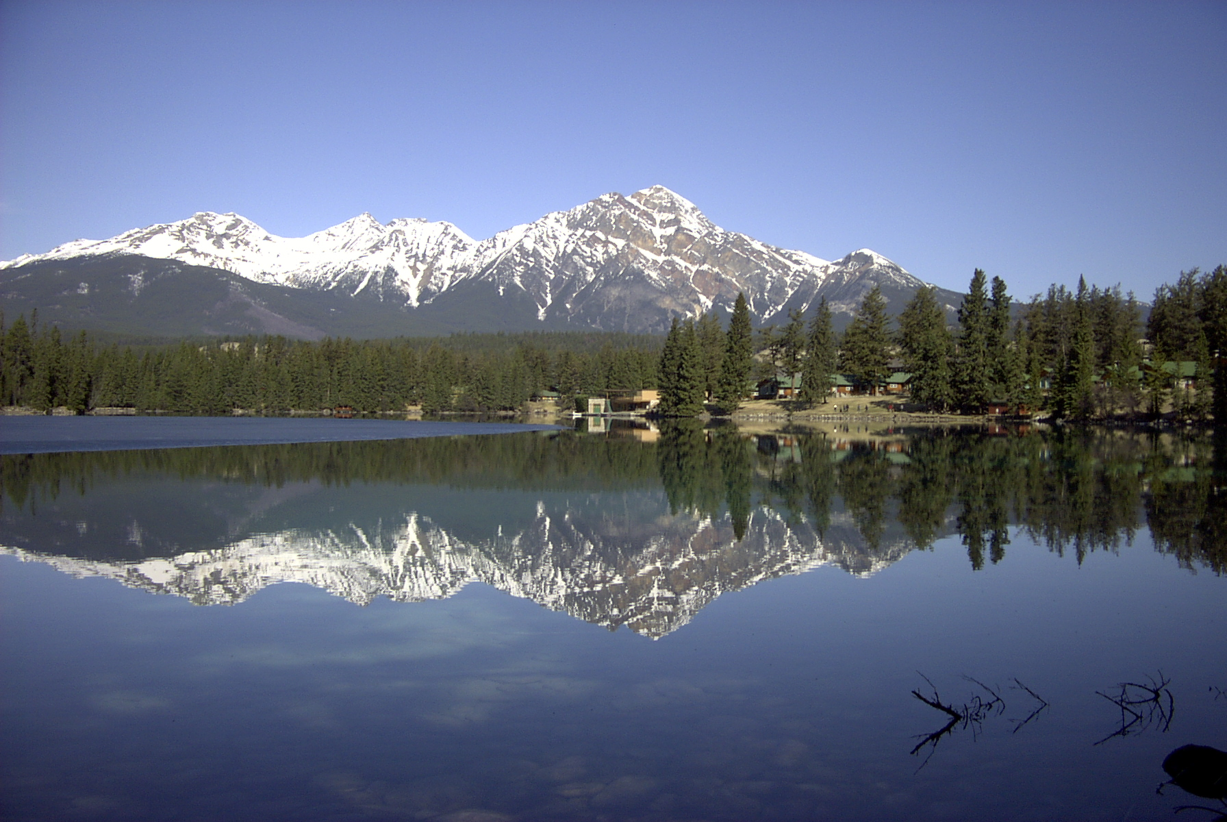 Lac Beauvert with part of the Jasper Park Lodge over on the North (right) shore.